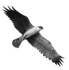 Melrose Resources plc Logo Bird